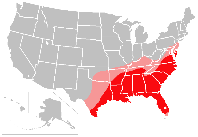 The red shading on this map denotes areas of the United States with a solidly humid subtropical climate; the pink shading denotes areas of the United States with a transitional/borderline humid subtropical climate. I created this map based largely on the information contained in the Humid subtropical climate article, with supplemental information gleaned from articles about various US cities and states. Consider this to be a work in progress and feel free to suggest changes/corrections to me or make them yourself, if necessary. Points of clarification: The Florida Keys are intentionally left uncolored because these areas exhibit a true tropical climate. Southern Florida (e.g. Miami area) is shaded pink to indicate transition to a true tropical climate. Also, the transitional zone in the west may need to be extended north to cover all of eastern Oklahoma and terminate in extreme southern and eastern Kansas (per the Kansas article's description of the climate of Kansas).